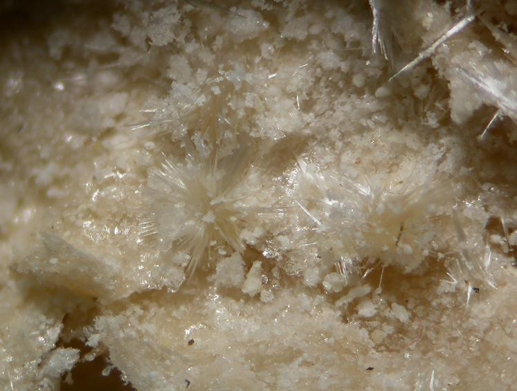 Mascagnite Locality: former Ravat Village, Yagnob River, joint of Zeravshan and Gissar Range, Viloyati Sogd (Viloyati Sughd), Tajikistan (Locality at ) Acicular xls and flakes of Mascagnite. Field of view 6 mm. Specimen and photo Leon Hupperichs.